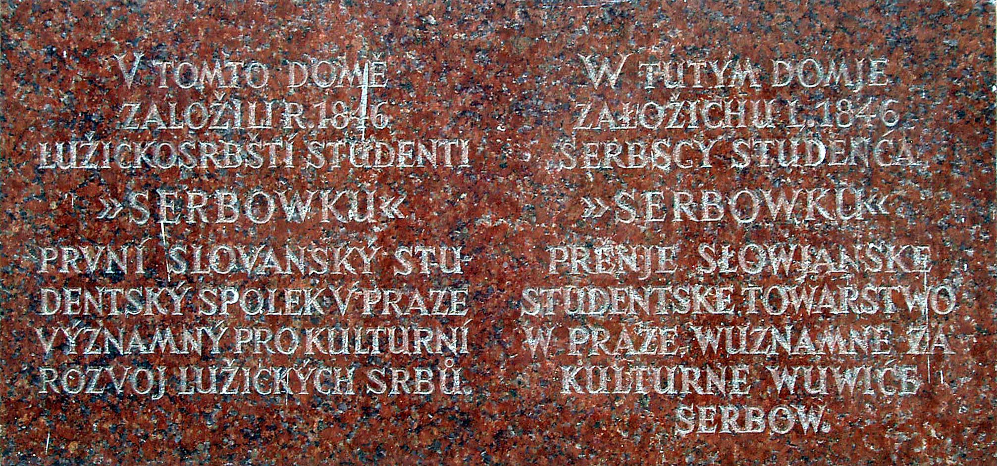 Bilingual, Czech-Sorbian plaque in Prague, Lesser Town, U lužického semináře No. 90/13. The lettering reads: “In this house Sorbian students founded the association »Serbowka« in 1846, the first Slavic students' association in Prague, significant for the cultural development of the Sorbs.” Hornjoserbsce: Dwurěčny čěsko-serbski napis při něhdyšim Serbskim seminarje w Praze. „W tutym domje załožichu l. 1846 serbscy studenća »Serbowku« prěnje słowjanske studentske towarstwo w Praze wuznamne za kulturne wuwiće Serbow.“